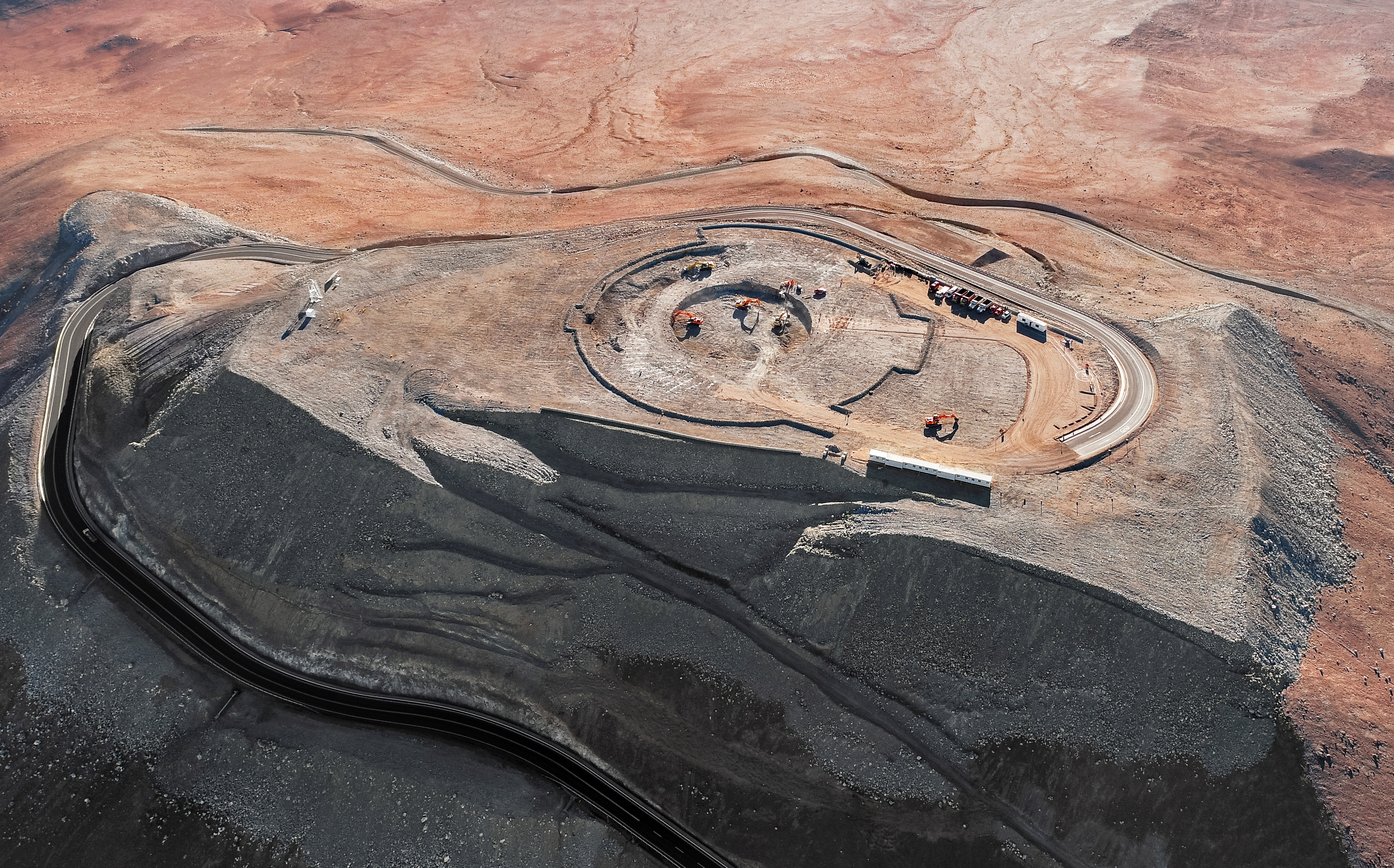 This image from early 2018 shows the start of the digging of the foundations for the dome and telescope structure of ESO’s Extremely Large Telescope (ELT) on Cerro Armazones — at an altitude of over 3000 metres in the Chilean Atacama Desert.